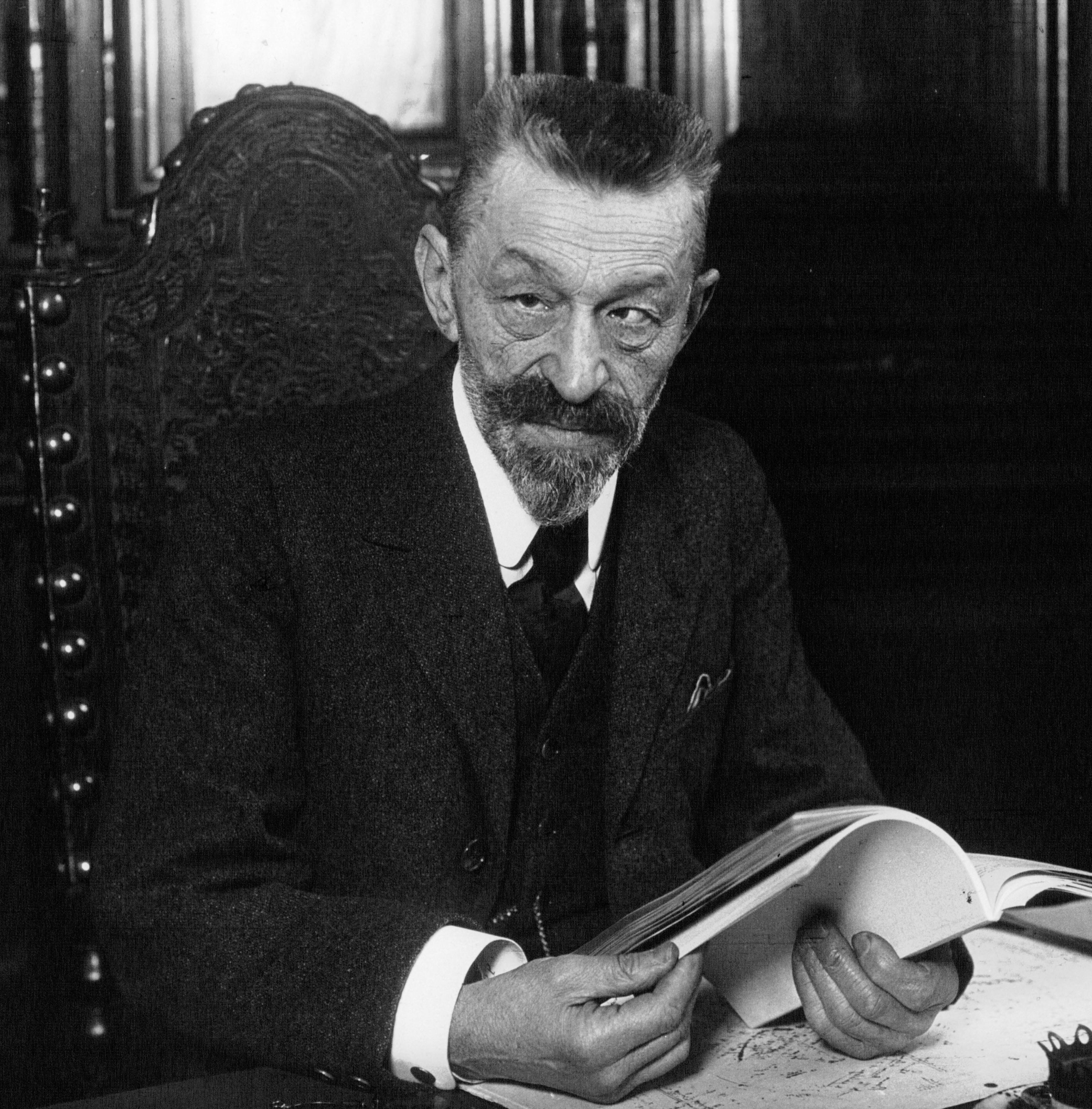 French medievalist and numismatist Maurice Prou (1861-1930).